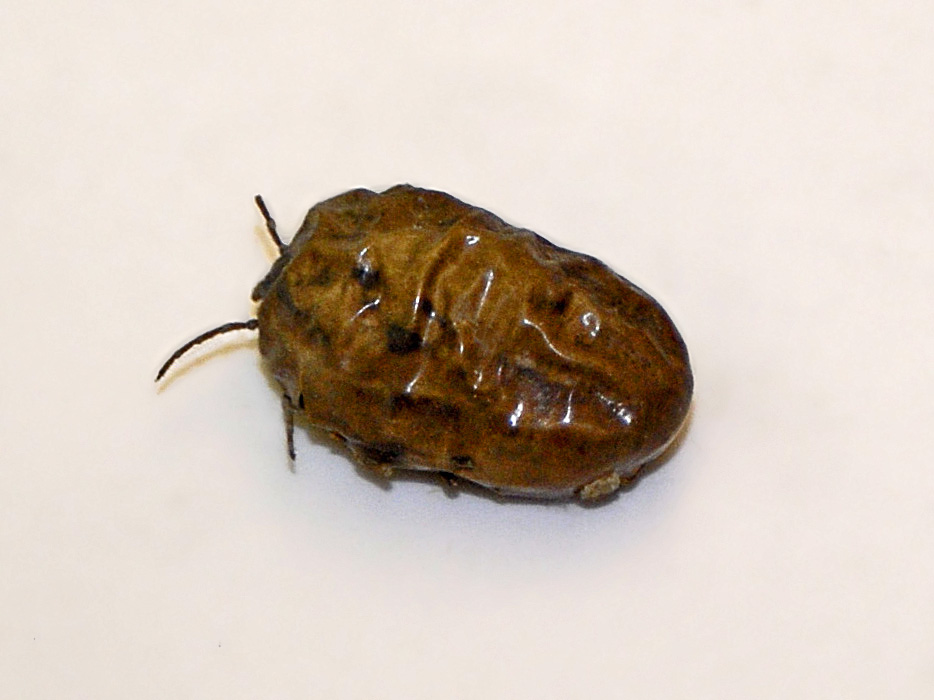 Hyalomma dromedarii from Lybia. Museum specimen